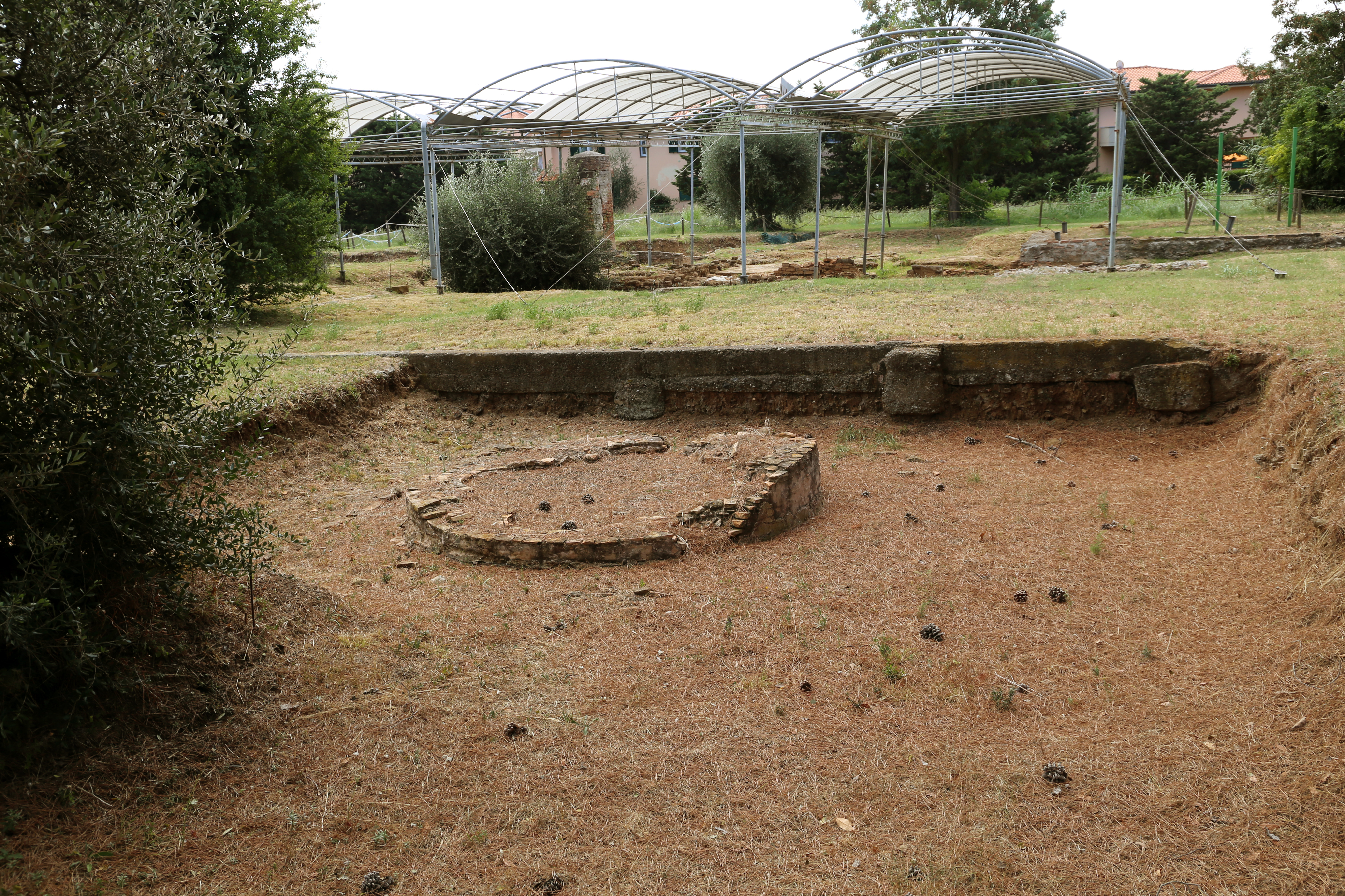 Archaeological site of San Vincenzino